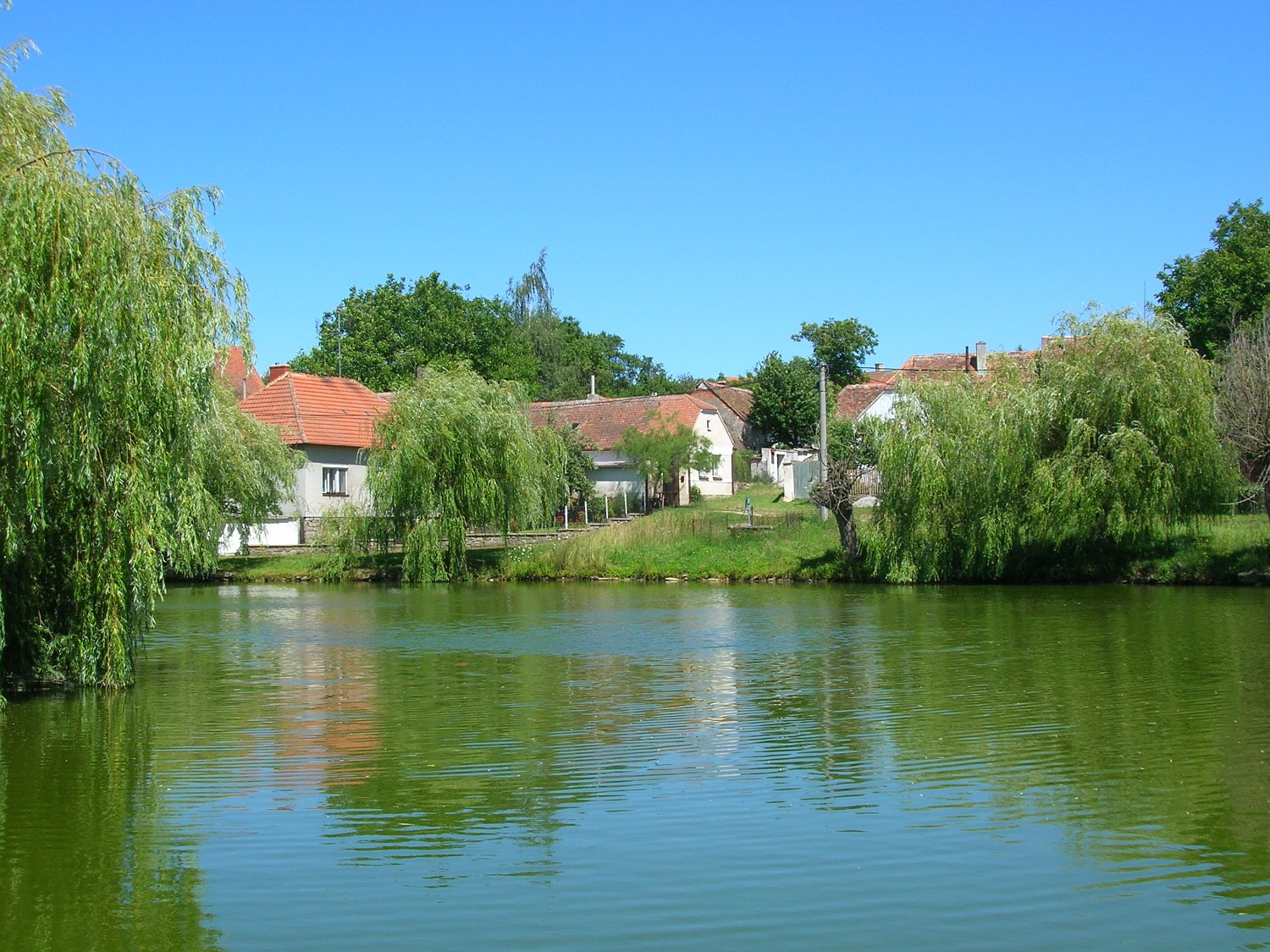 Jaroměřice nad Rokytnou-Boňov. Look on village fire reservoir